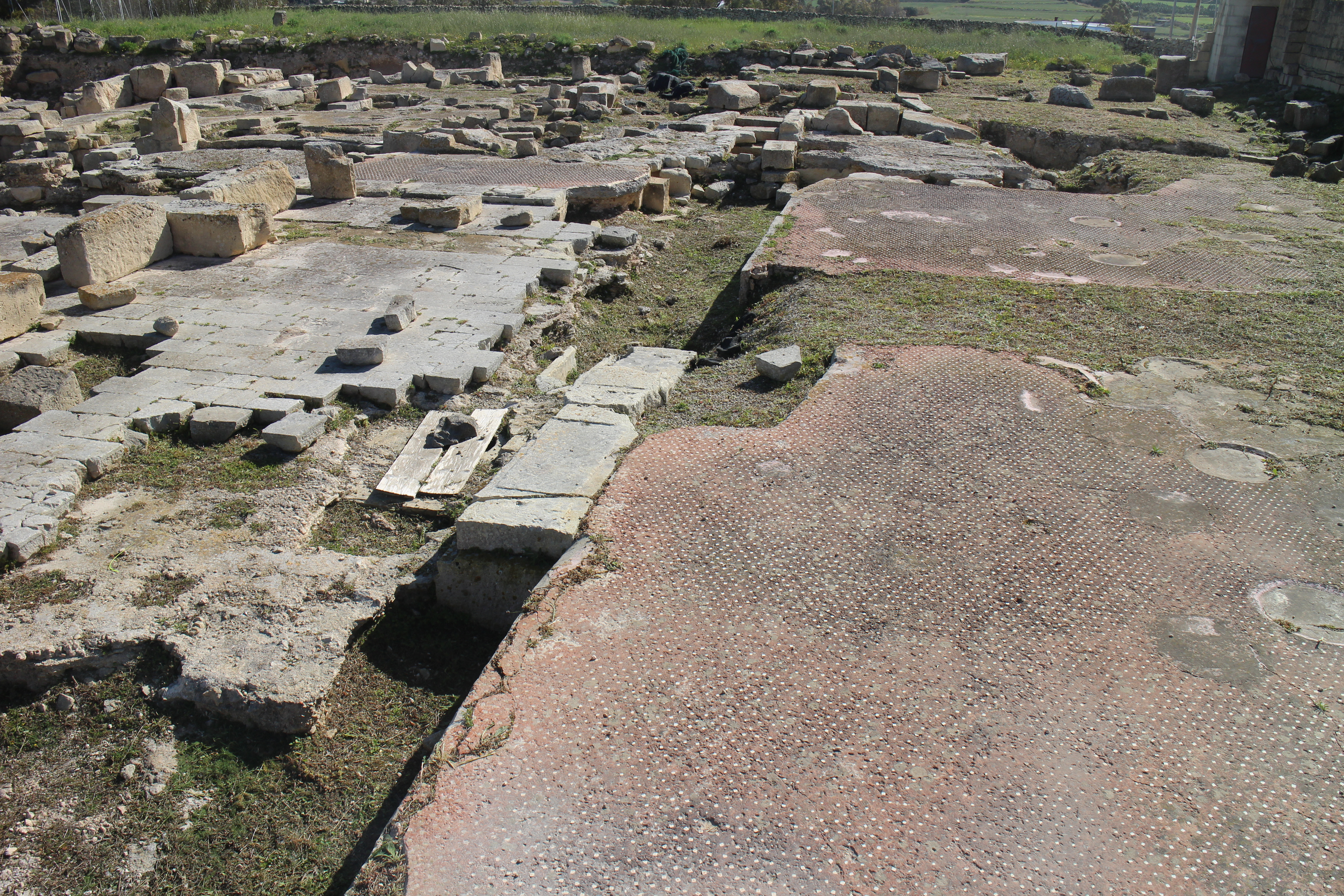 Tas-Silġ Temples, Triq Xrobb l-Għaġin in Marsaxlokk, Malta